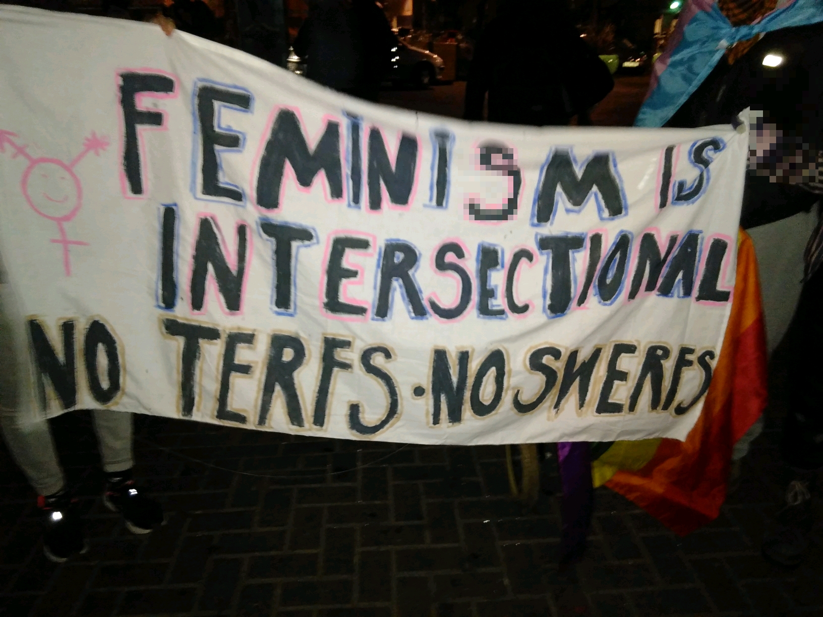 Outside a labour party thing that had terfs in it.